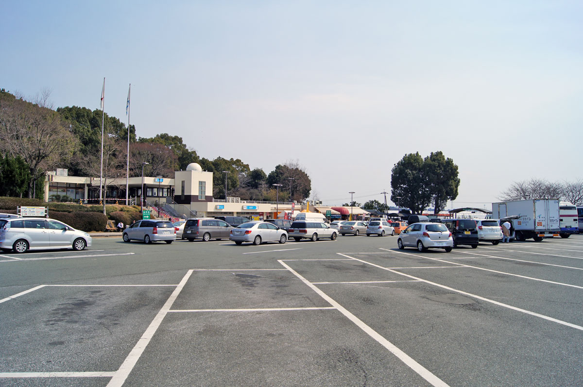 Kitakumamoto Service Area on the Kyushu Expressway southbound line